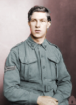 Bill Carmody from 1914-1918